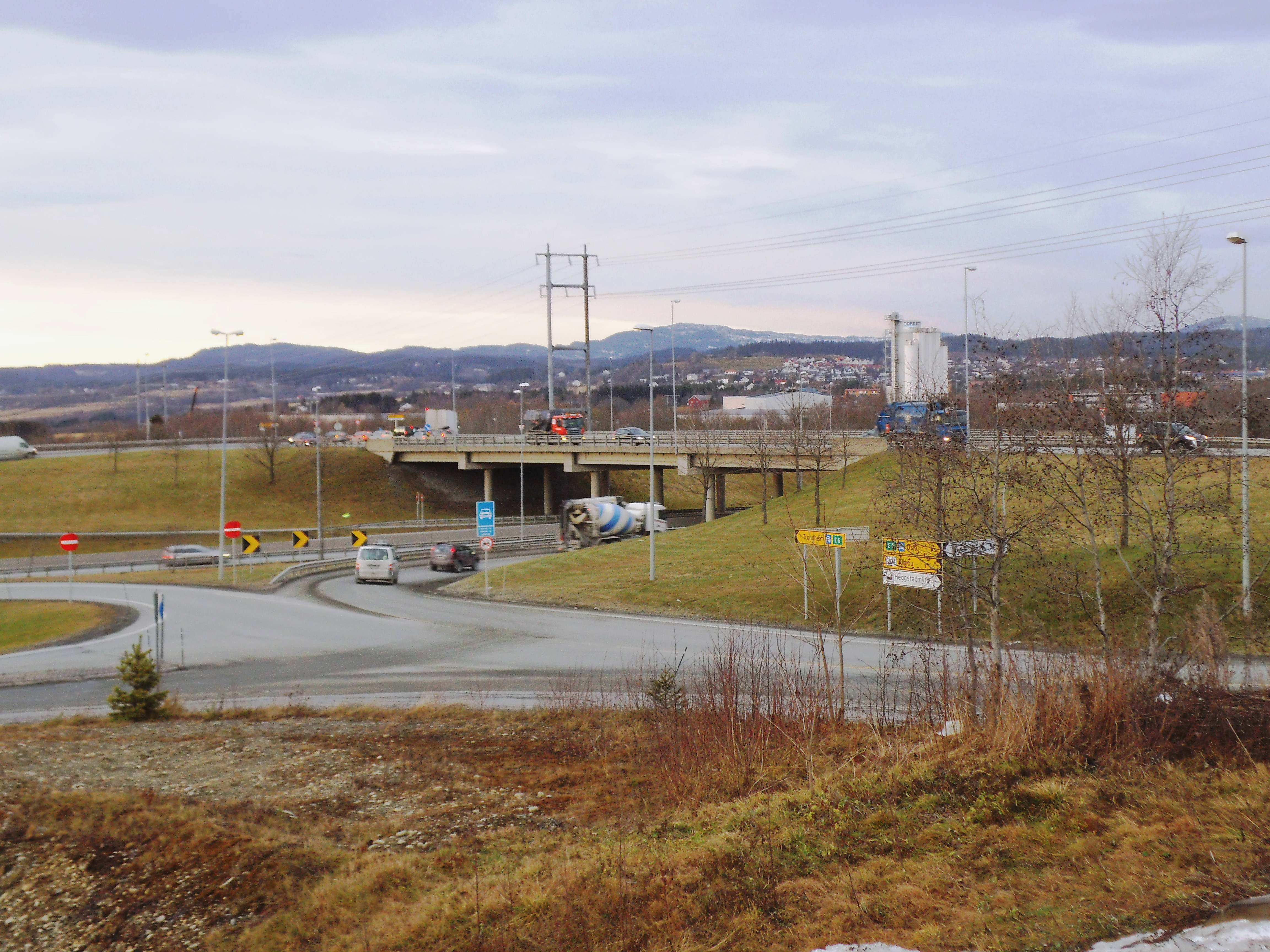 A bridge over E6 in Sandmoen, Trondheim.